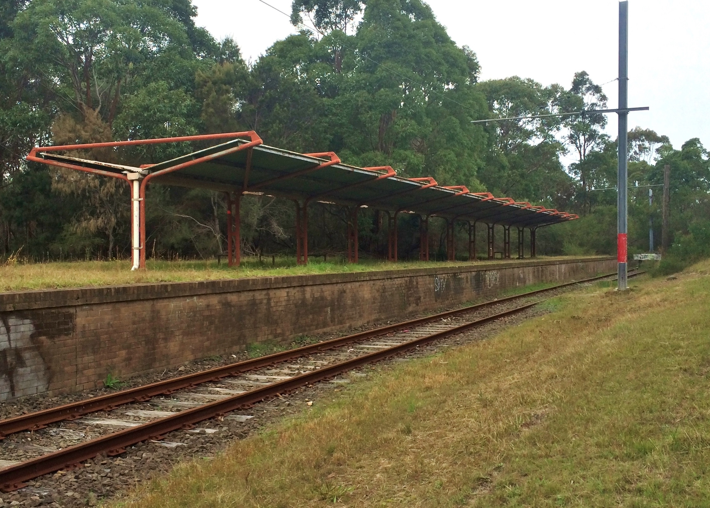 A view of the former Royal National Park railway station, now in use as a tram stop by the Sydney Tramway Museum, in May 2015.